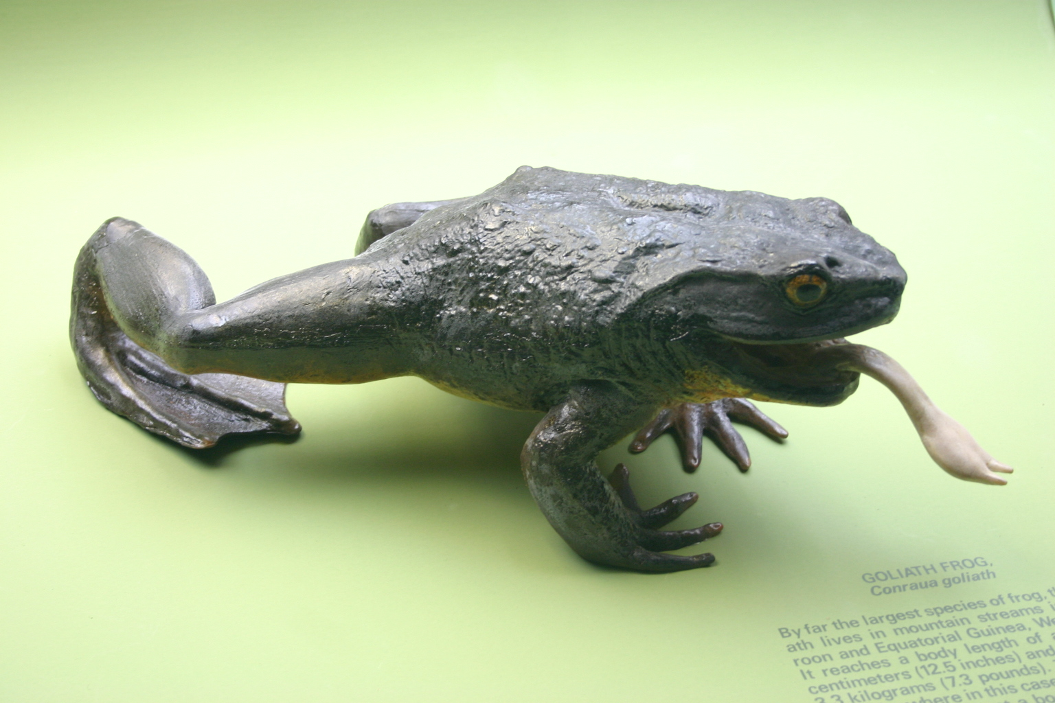 Goliathfrosch (Conraua goliath); Präparat im American Natural History Museum